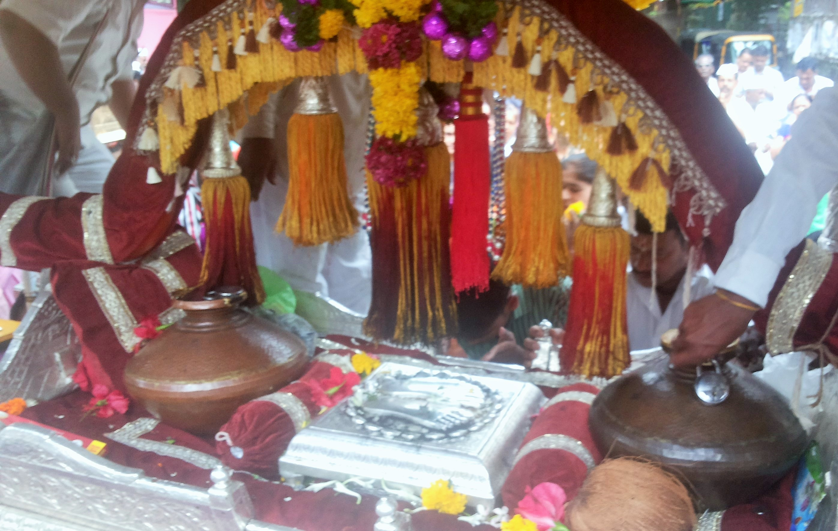 Tukaram Maharaj palkhi (palanquin)